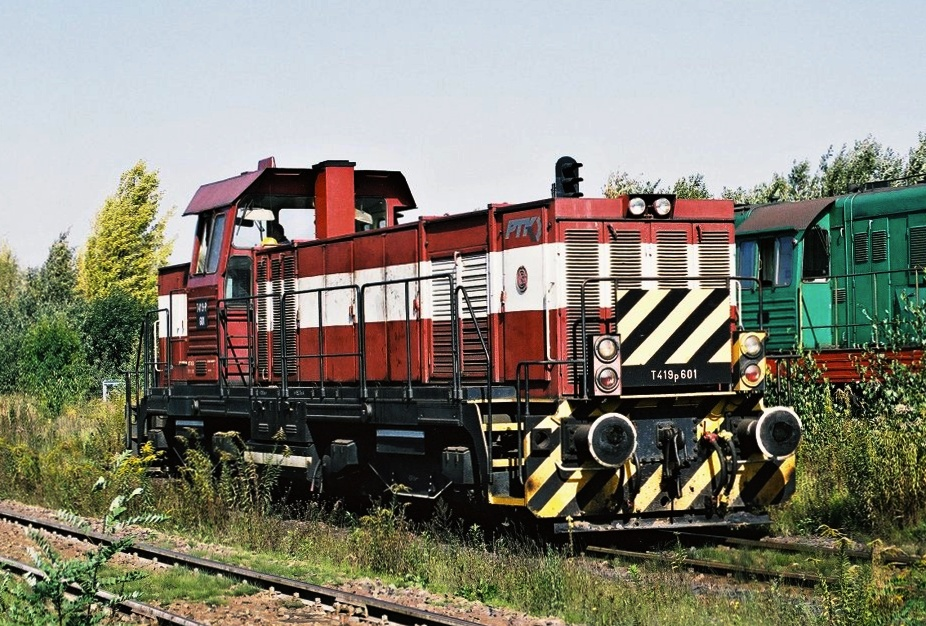 Locomotive T419p-601 of PTKiGK Rybnik railway operator; Jankowice coal mine